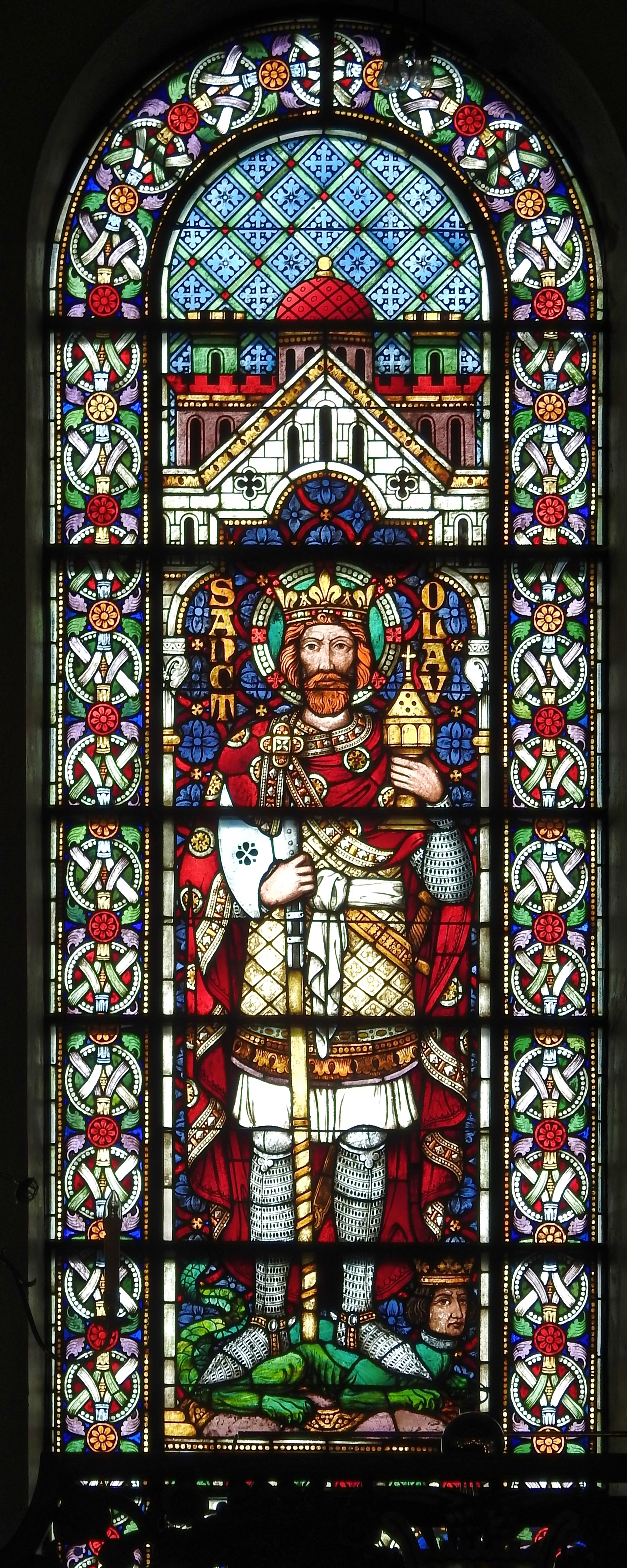 The Alesund Church was completed in 1909.